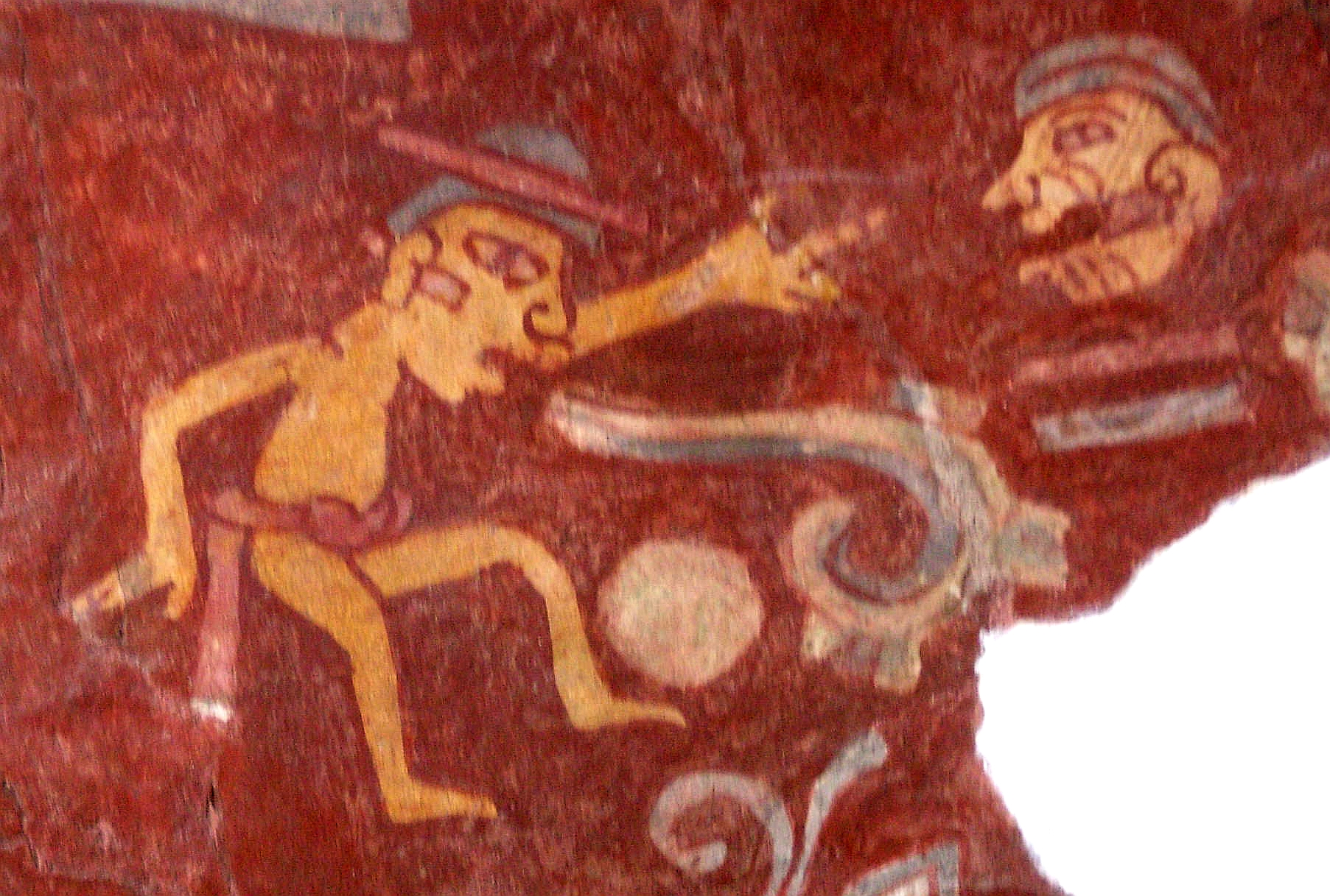 Small detail of a reproduction of a mural at the Tepantitla complex of Teotihuacan. The painting also shows an example of a speech scroll coming from the mouth of the player.